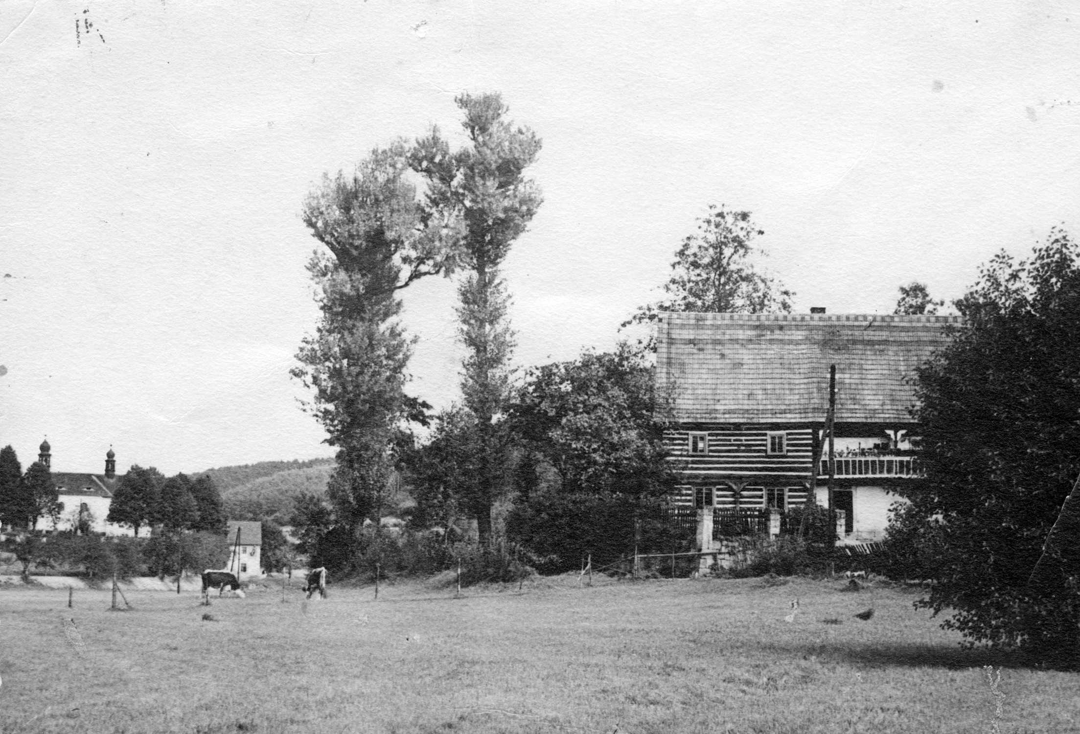 Sanders Grundle, Medonosy 1935